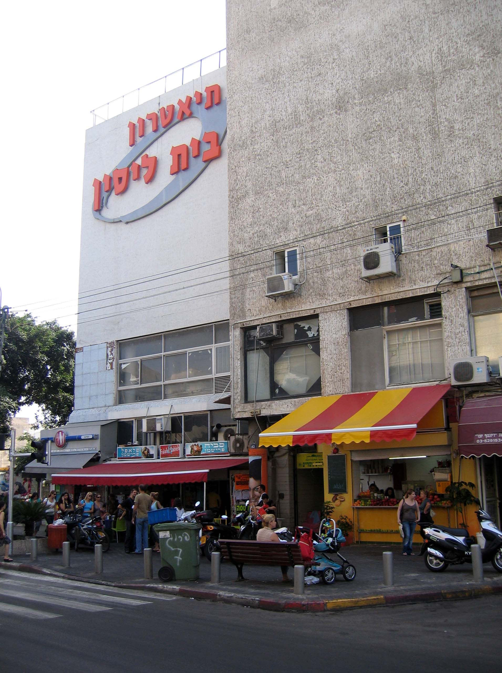 Beit lessin Theater